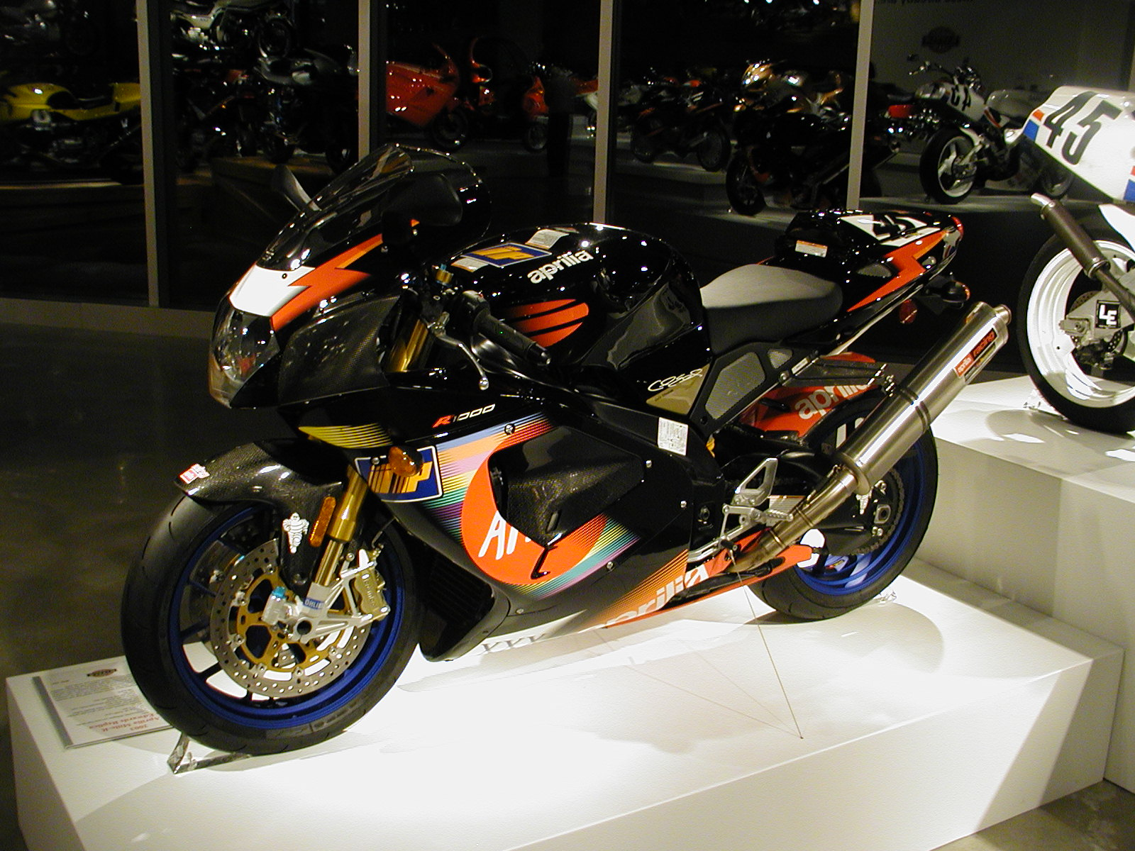 Barber Motorcycle Museum - Oct 22 2006 (78) 2003 Aprilia Mille-R Colin Edwards Replica